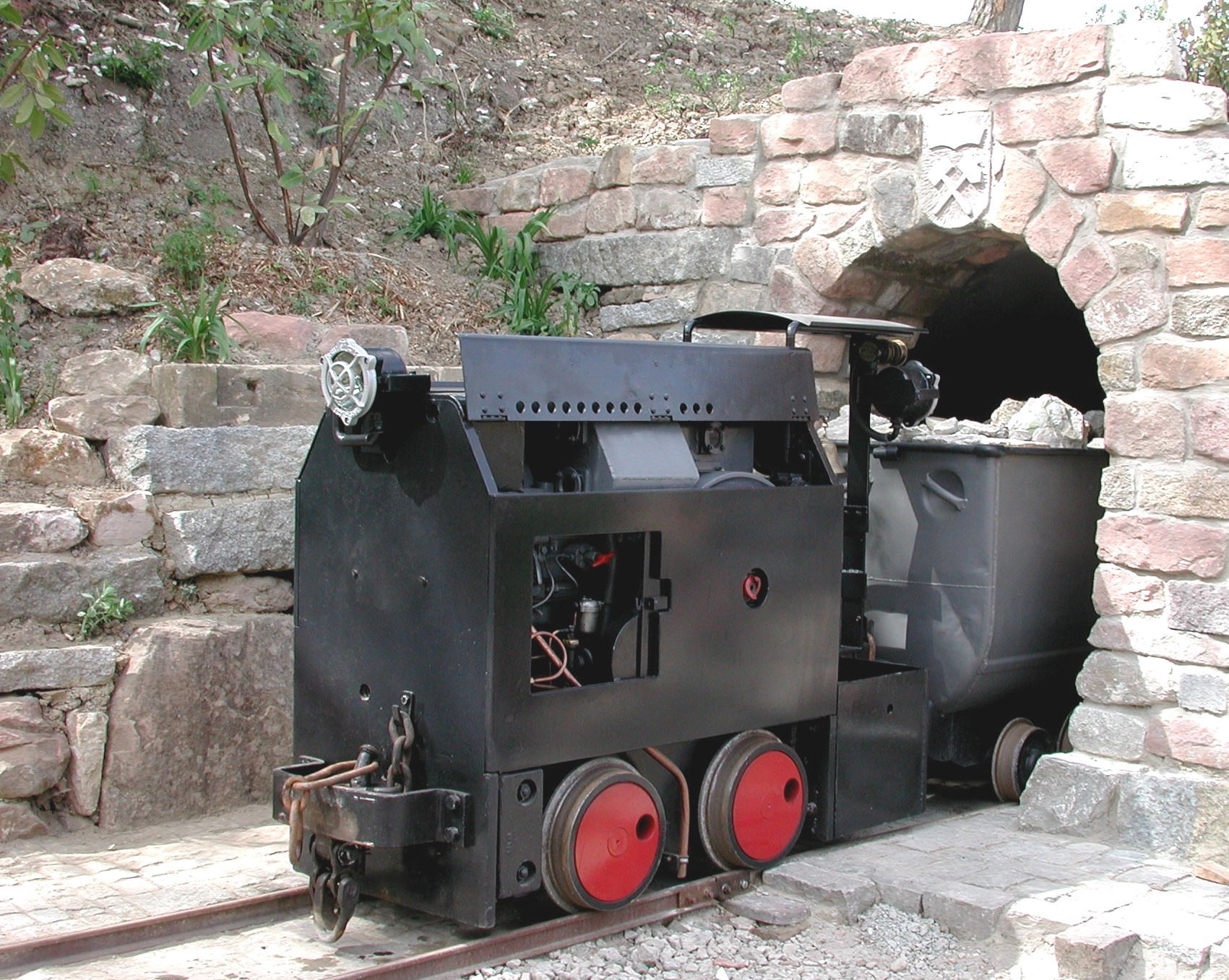 Deutz MLH 514, a small diesel mining locomotive. Contents 1 Technical data 2 Technische Daten 3 Licensing 4 Original upload log Technical data Weight: 2.7 tonnes Power: 9 hp Vmax: 7 kph Fuel: Diesel Built 1938 Gauge: 600 mm